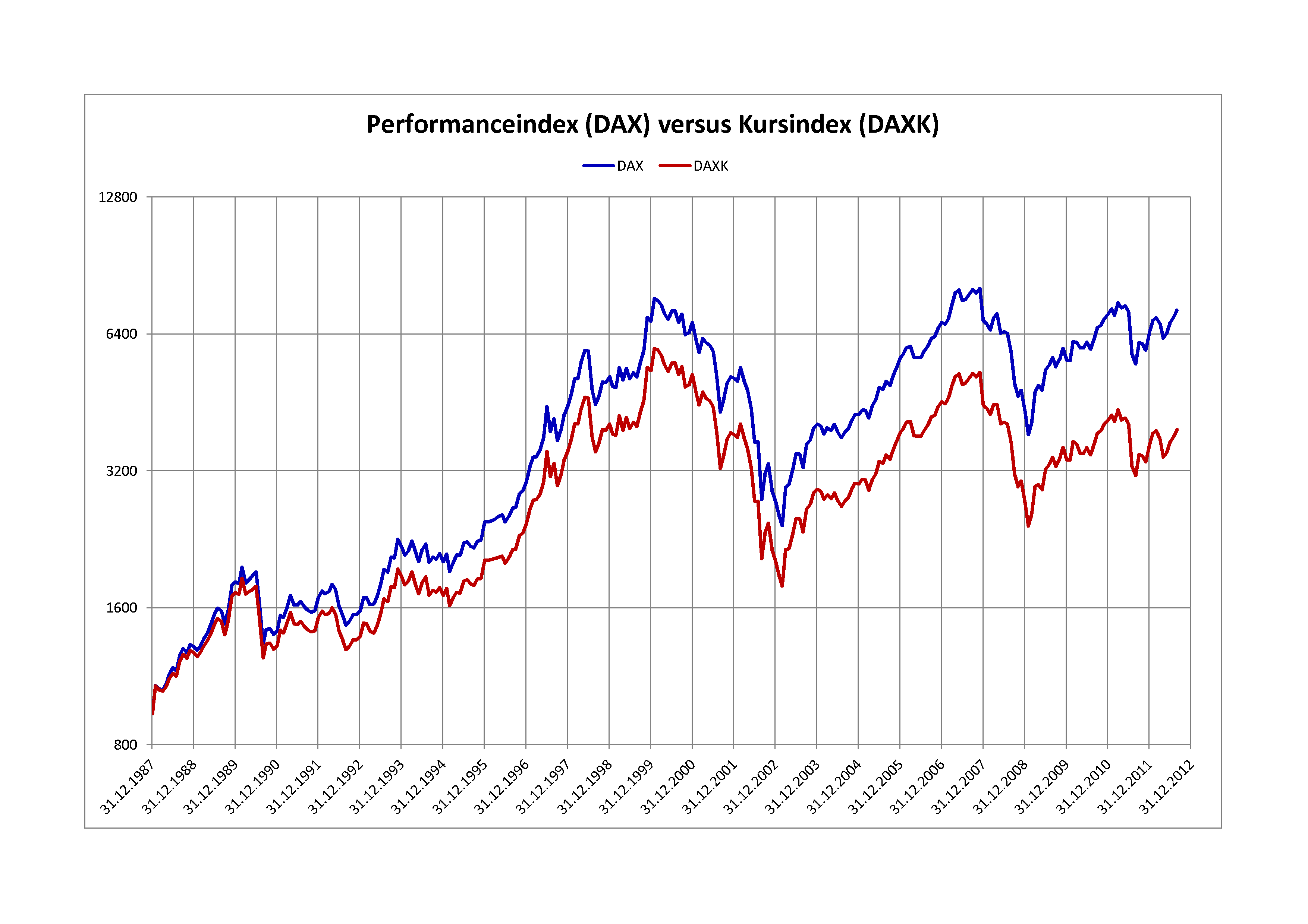 Performance index (DAX) versus price index (DAXK) von December 1987 to September 2012 (monthly closings)